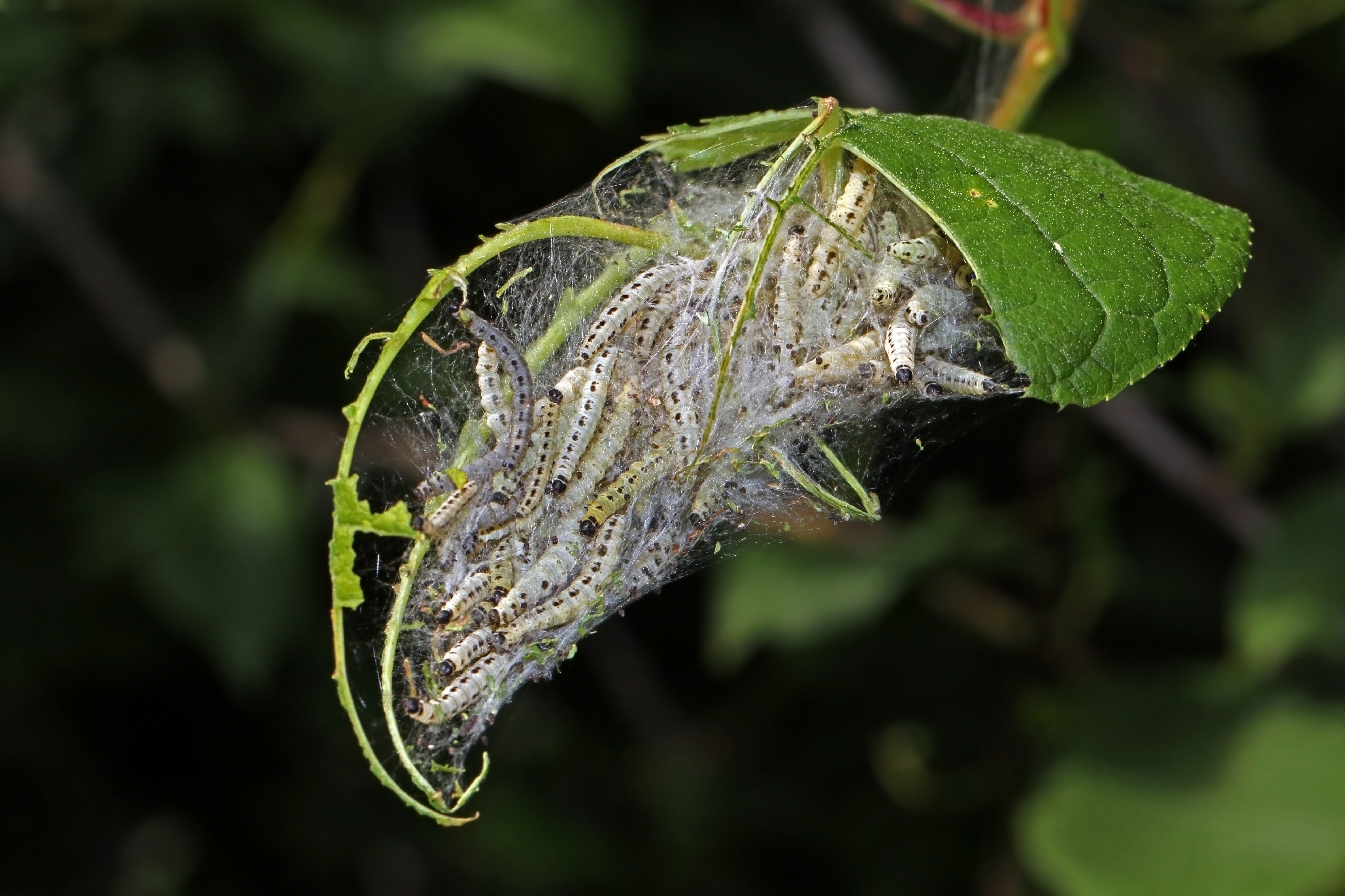 Bird-cherry ermine moth (Yponomeuta evonymella) caterpillars, Lahemaa National Park, Estonia